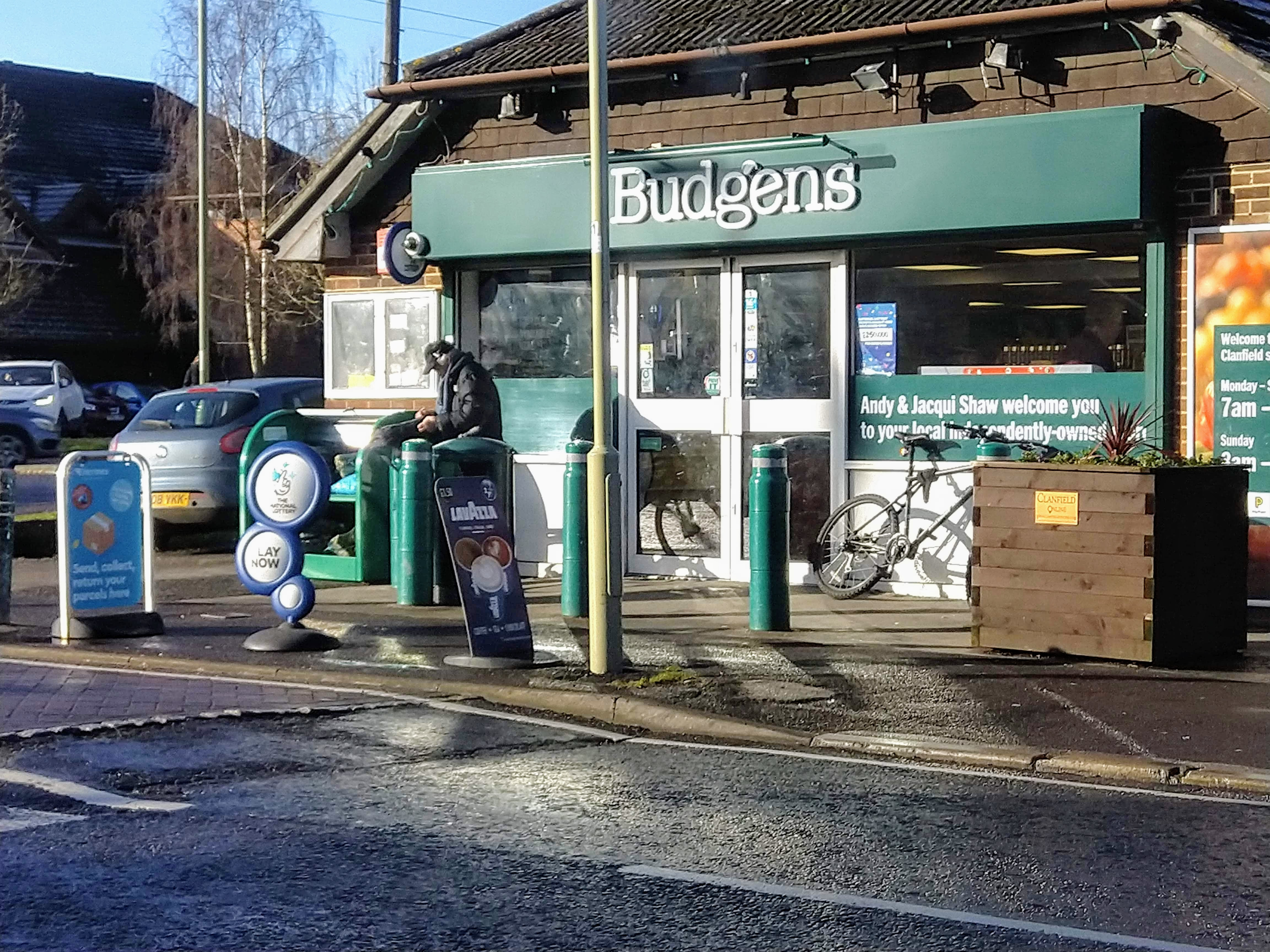 A Budgens in Clanfield, Hampshire